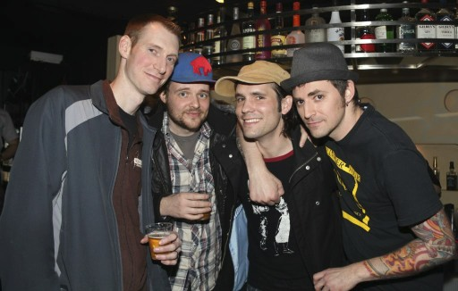 Allister members at Shibuya Eggman livehouse in Tokyo Japan